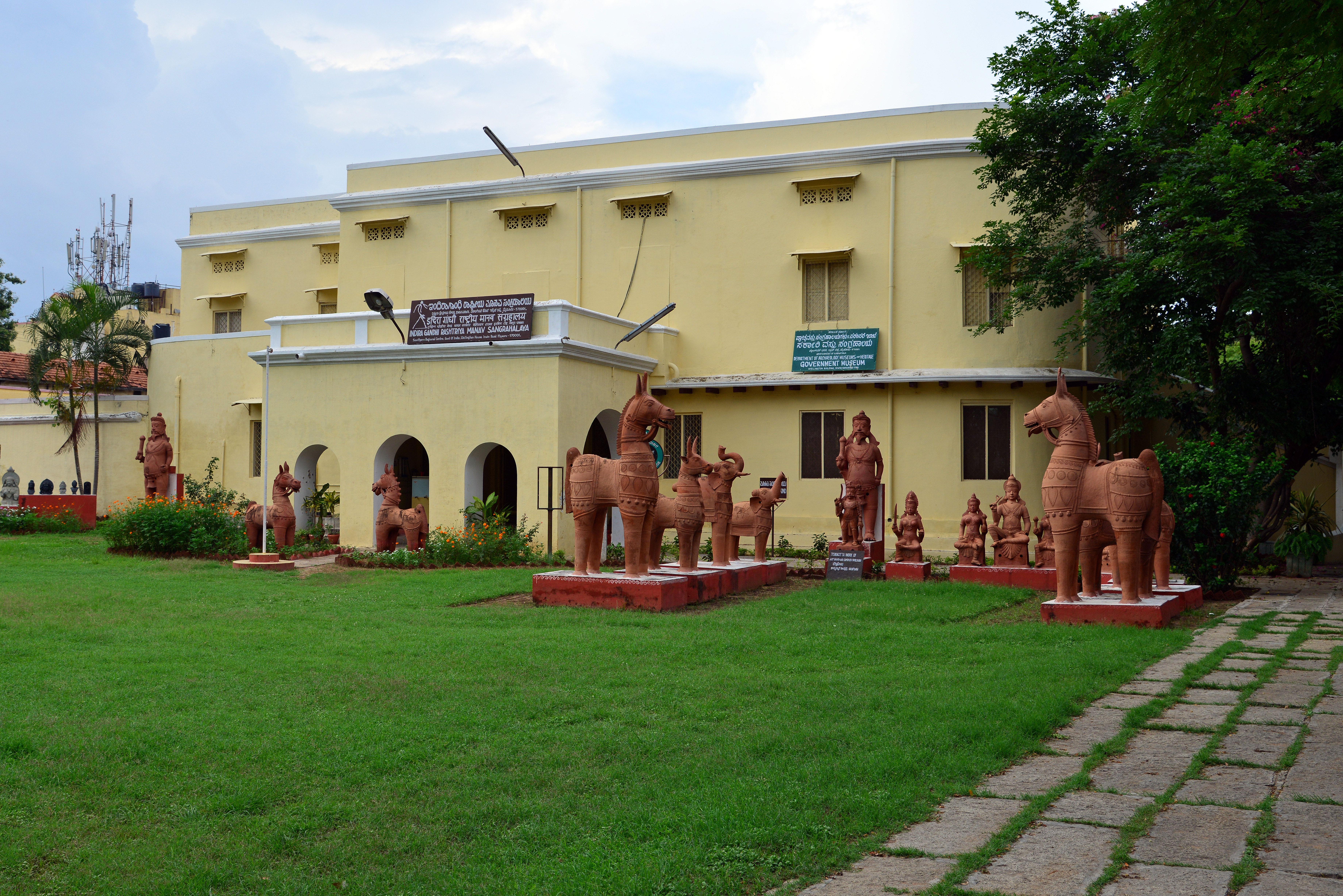 Wellington Lodge, Mysore